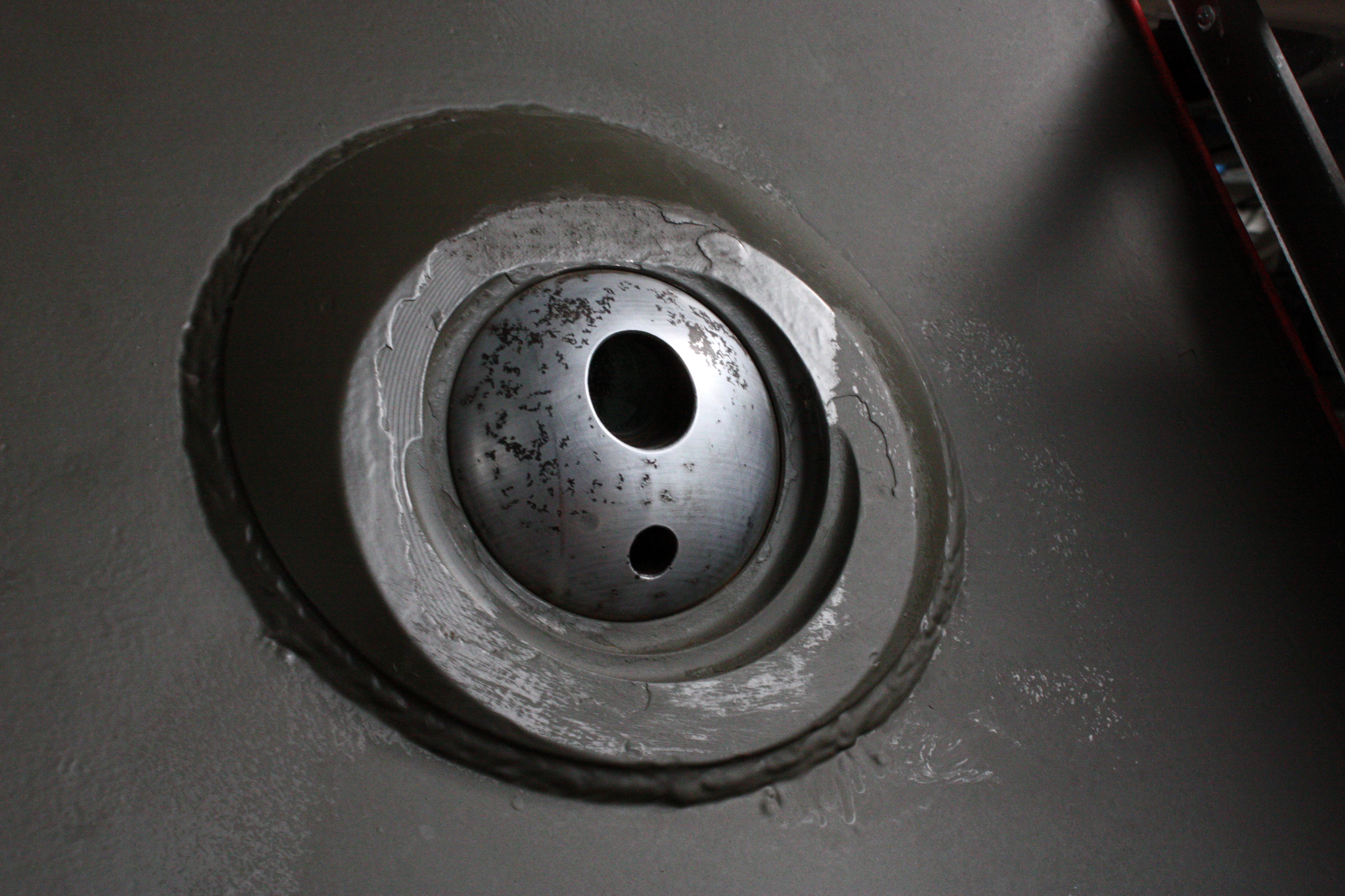 German Tank Museum